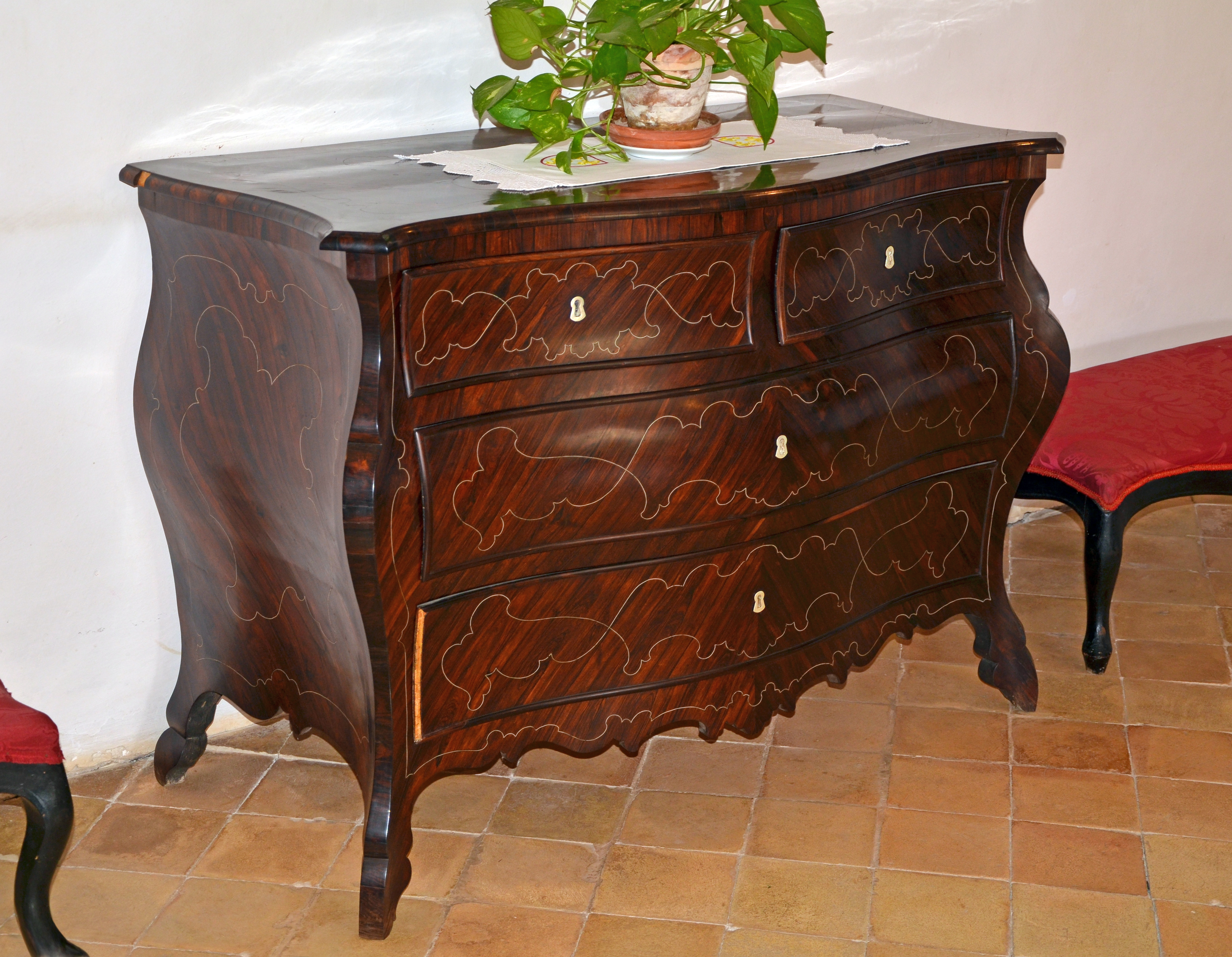 Commode in the Jardins d’Alfàbia